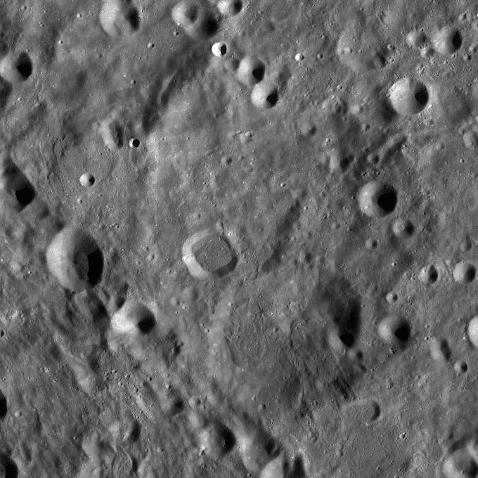 Weyl, on the far side of the moon. Mosaic of LRO WAC images.